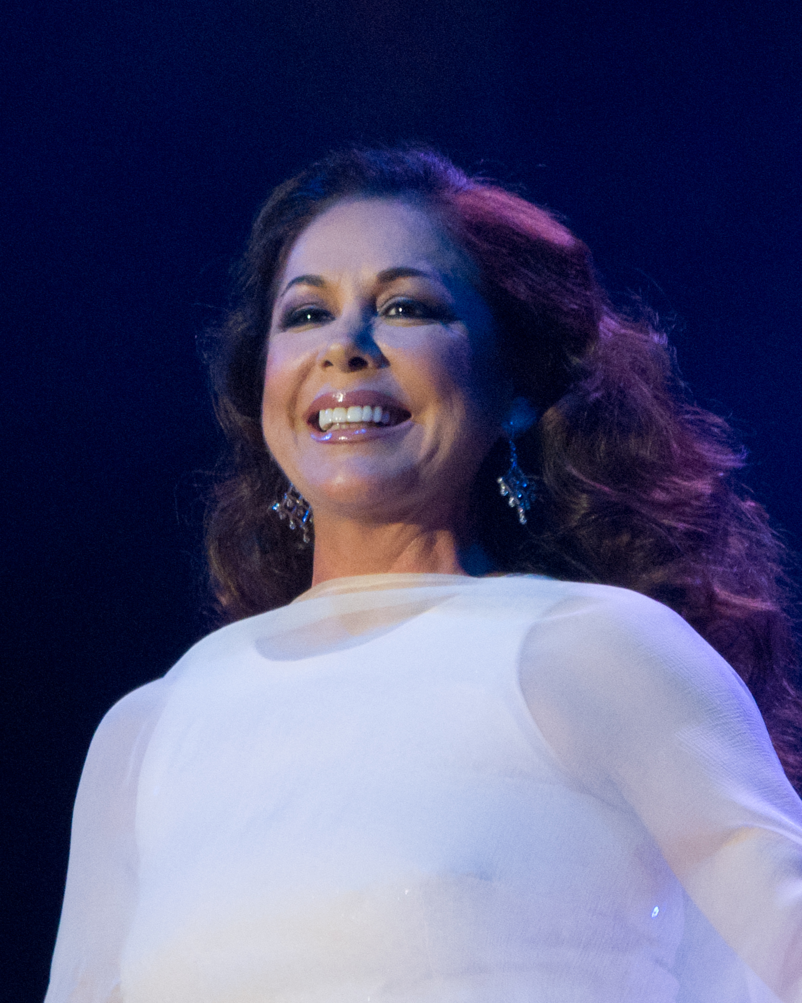 Isabel Pantoja live in Madrid in 2012.